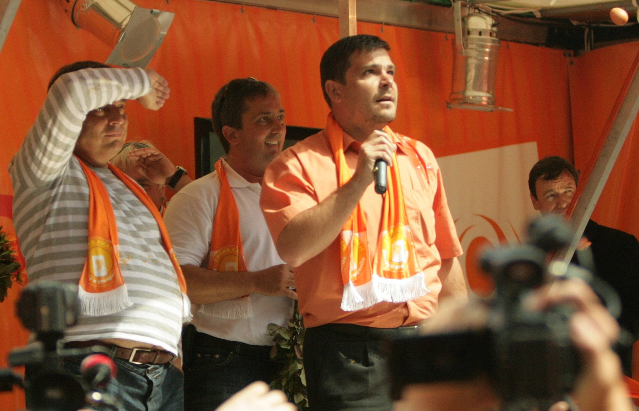 Jiri Paroubek attacked with eggs on rally for European parliament elections 2009, Prague, Andel